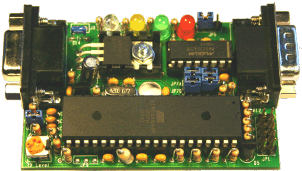 TinyTrack 4 APRS Tracker